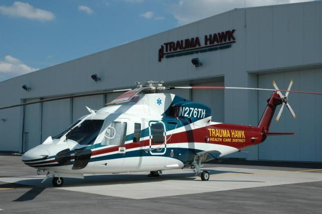 The Traumahawk of Palm Beach County, FL, used in junction with Palm Beach County Fire-Rescue. .